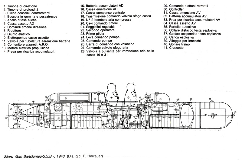 Siluro San Bartolomeo (SSB), or St. Bartholomew Torpedo, were the Italian battery propelled submersibles used in WWII for underwater operations of commandos. Only three were manufactured before the Armistice. They are distinguished from mass produced Siluro a Lenta Corsa SLC Maiale. }